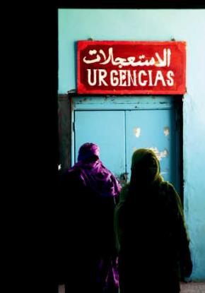 Urgencies room on a hospital at the Sahrawi refugee camps